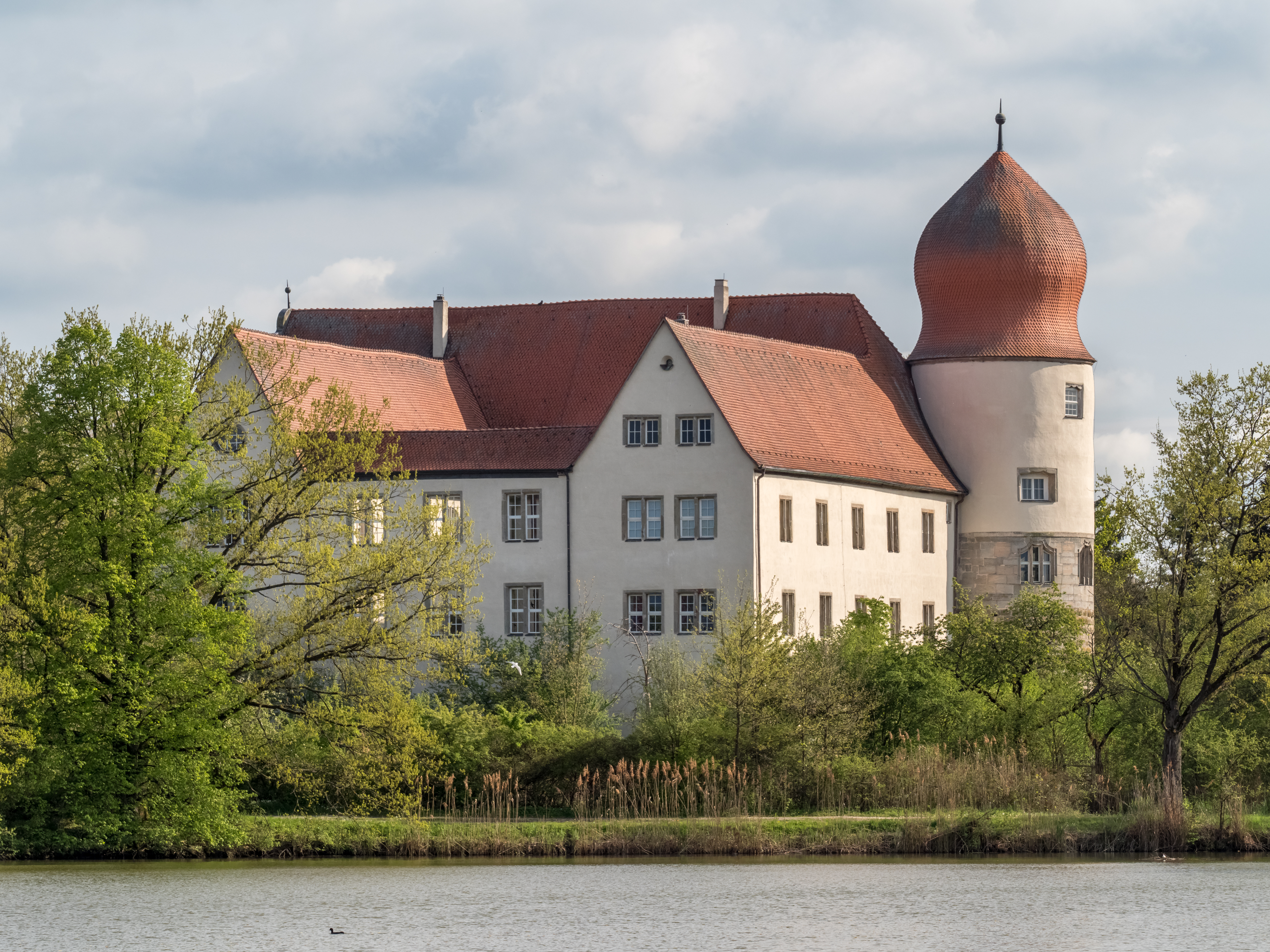 Neuhaus moated castle near Adelsdorf in Aischgrund